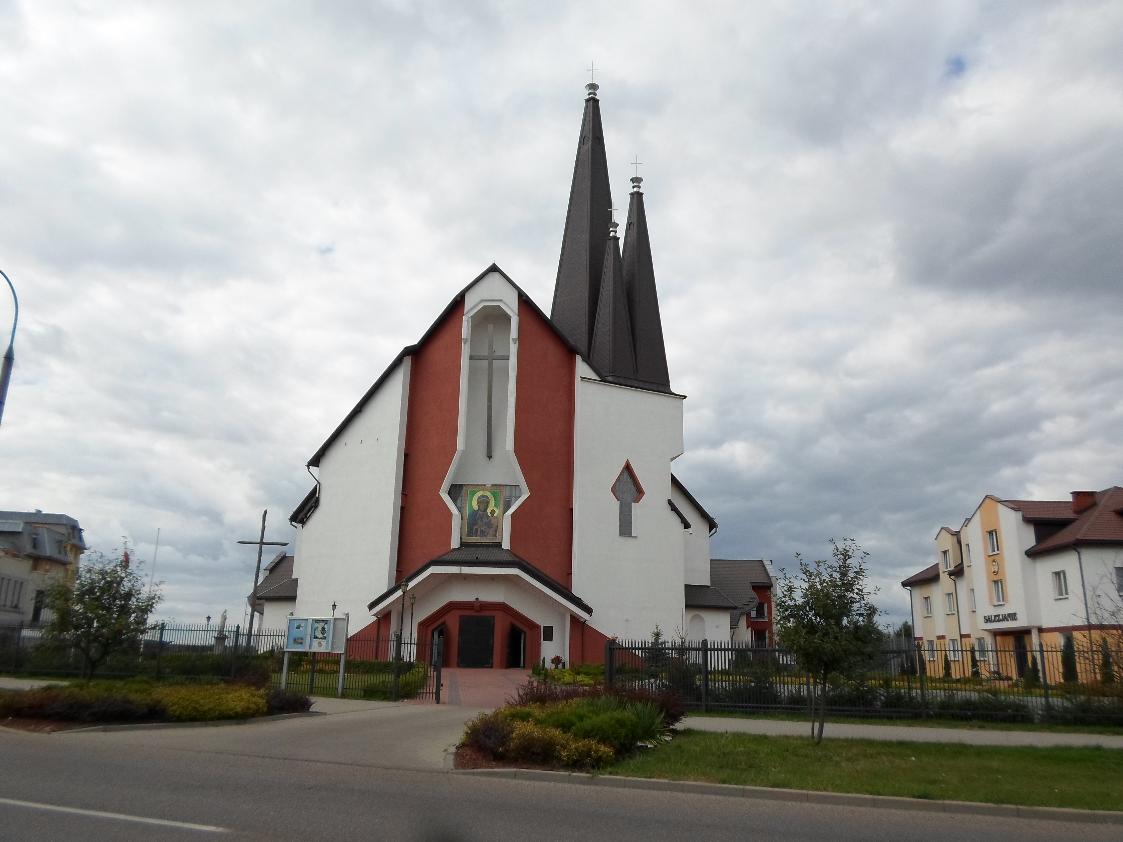 St. Raphael Kalinowski Church in Ełk